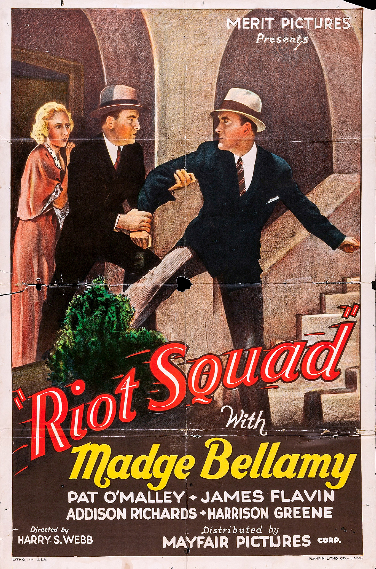 Poster for the 1933 film Riot Squad. There are no copyright marks. At bottom left is Litho in USA. At bottom right is Plampin Litho Co, Inc NYC. They printed the poster.